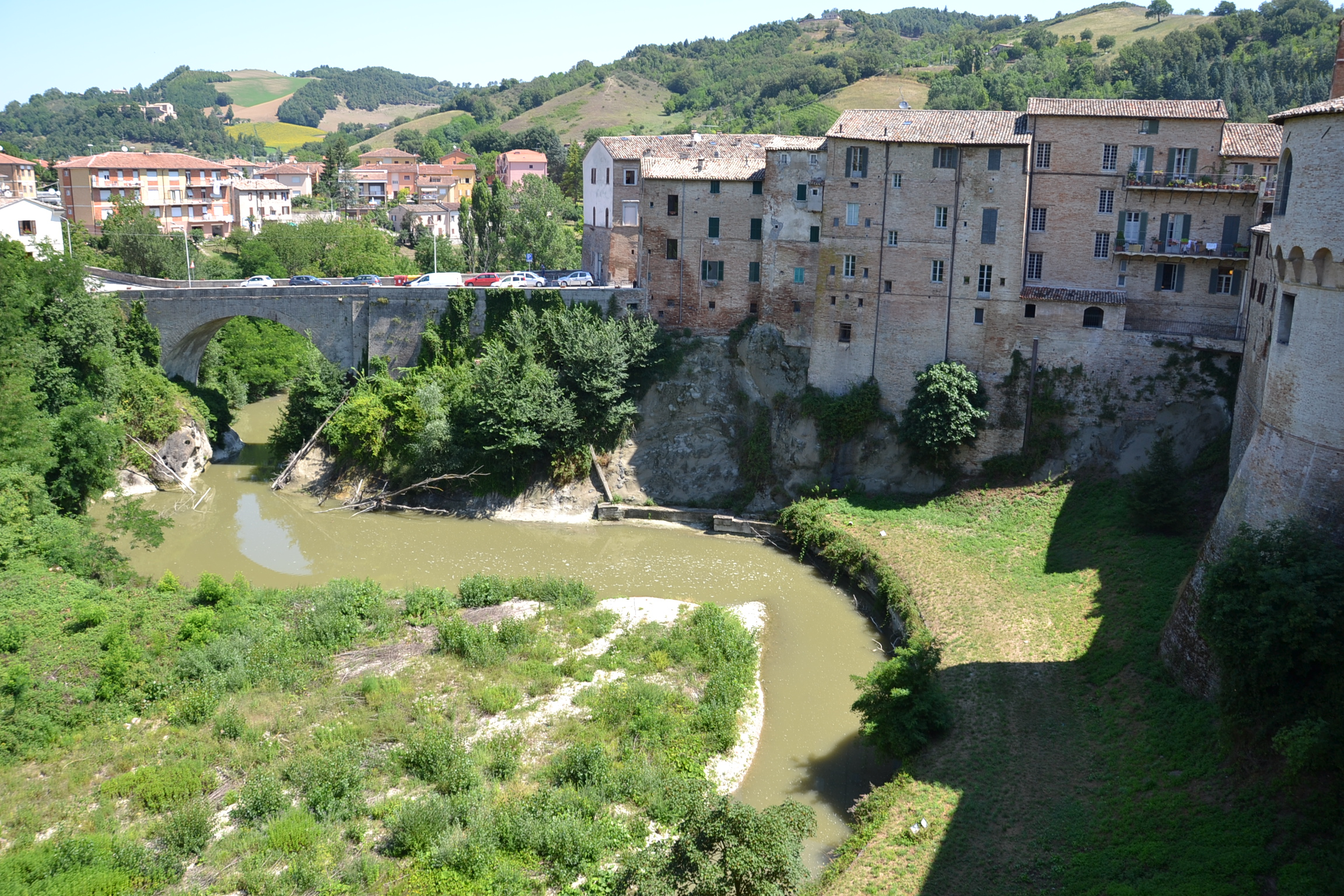 Wall of the town Urbania, formaly Papal States